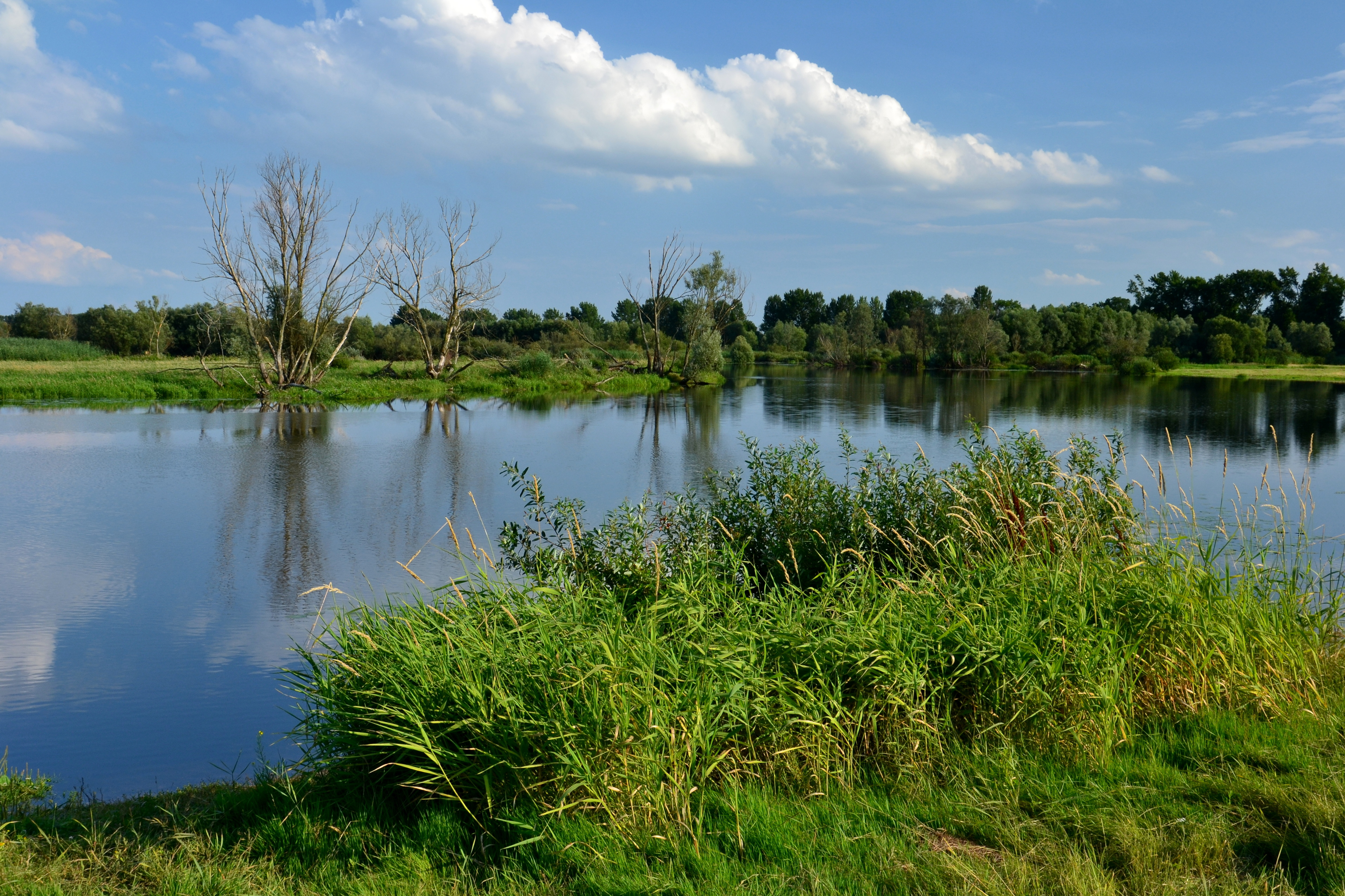 Ujście Warty National Park - Postomia river